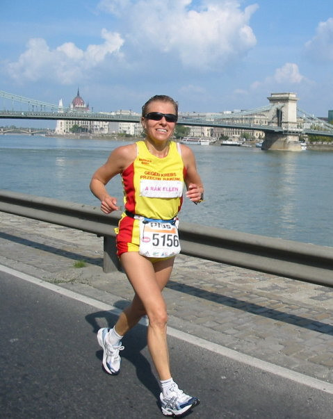 Barbara Szlachetka, Budapest Marathon 2004, photo berces